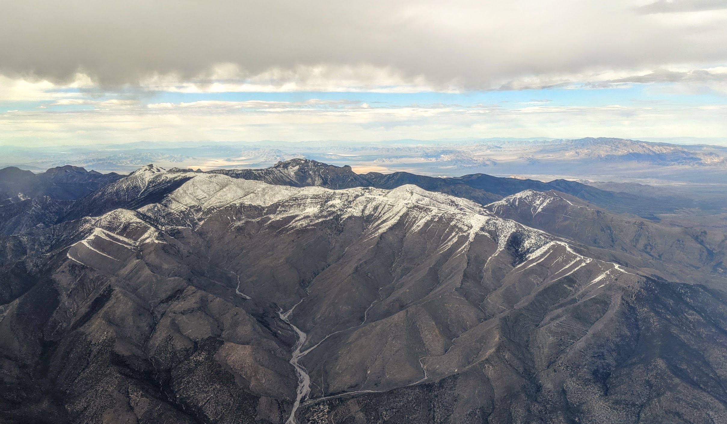 Aerial view of Mount Charleston and Trout Canyon near Las Vegas Nevada. Charleston Peak is at rear left, Trout Canyon in foreground.